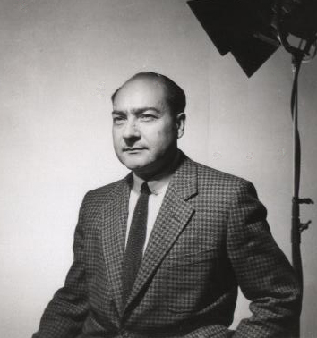 Moshe Matus in the studio